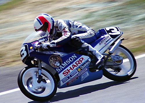 Hans Spaan, at Japanse Grand Prix 1989